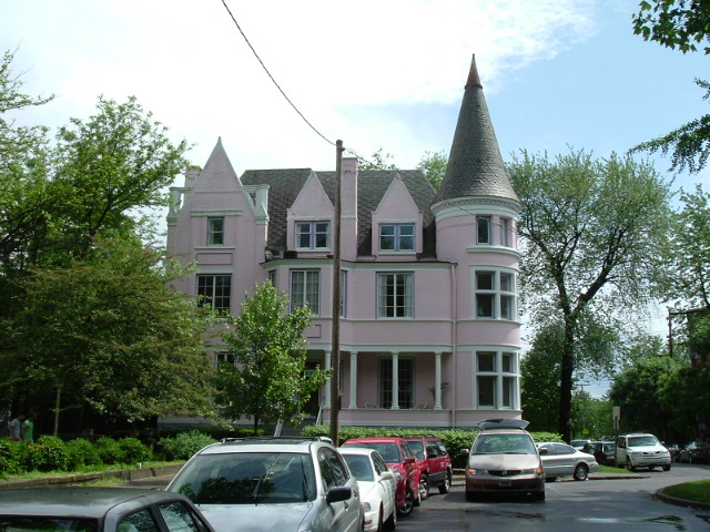 Taken by uploader, all rights released